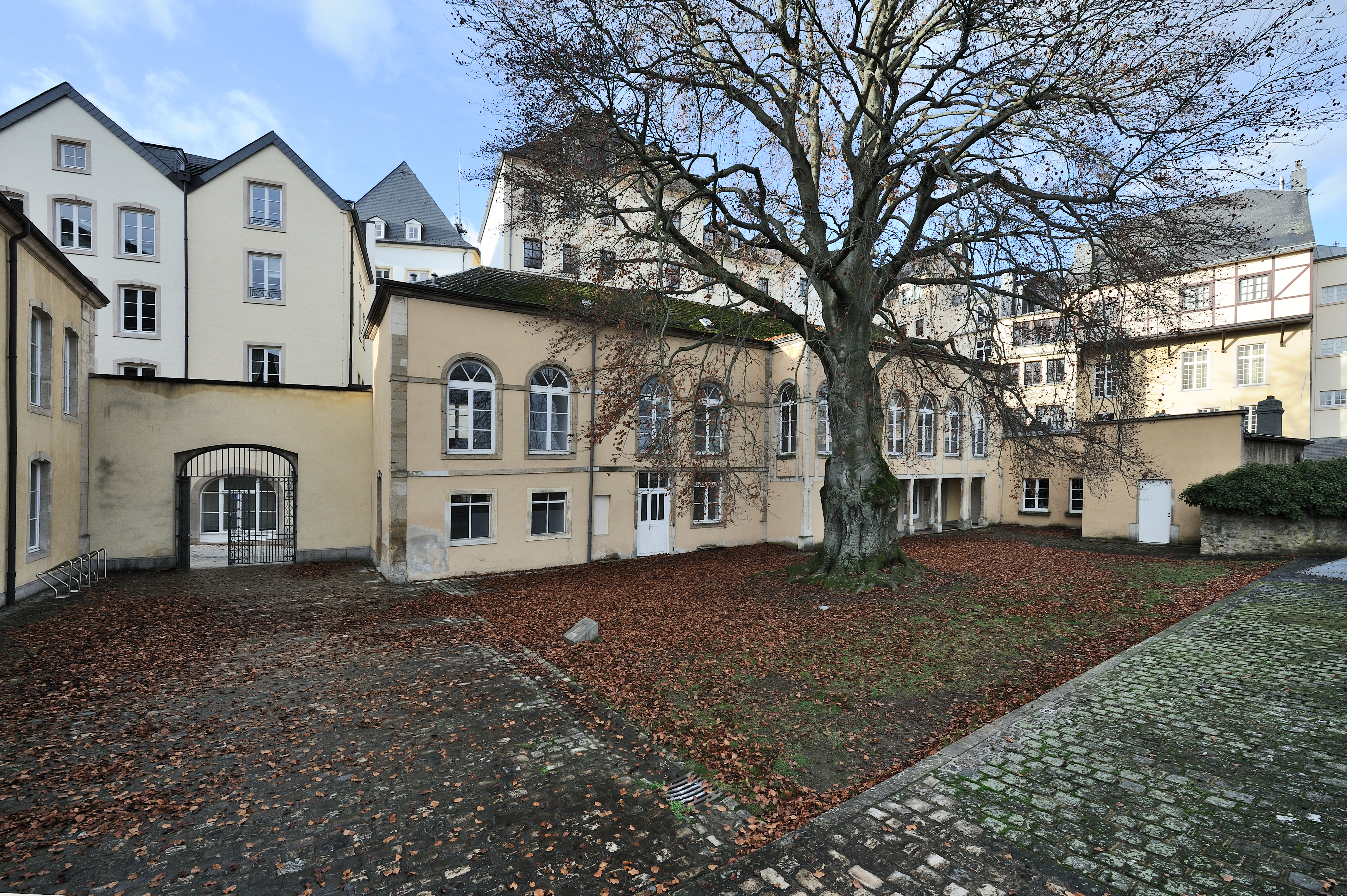 Courtyard of the History Museum of the City of Luxembourg, with a remarkable purple beech (Fagus sylvatica cv. purpurea), which is listed as National Monument.